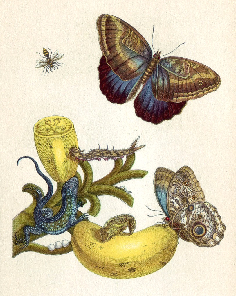 Illuminated Copper-engraving from Metamorphosis insectorum Surinamensium, Plate XXIII. Solanum mammosum 1705